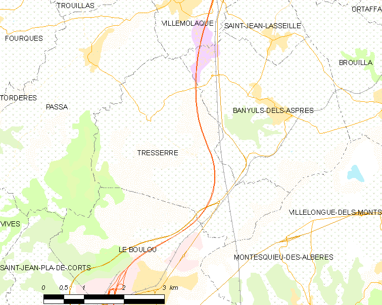 Map of French municipality